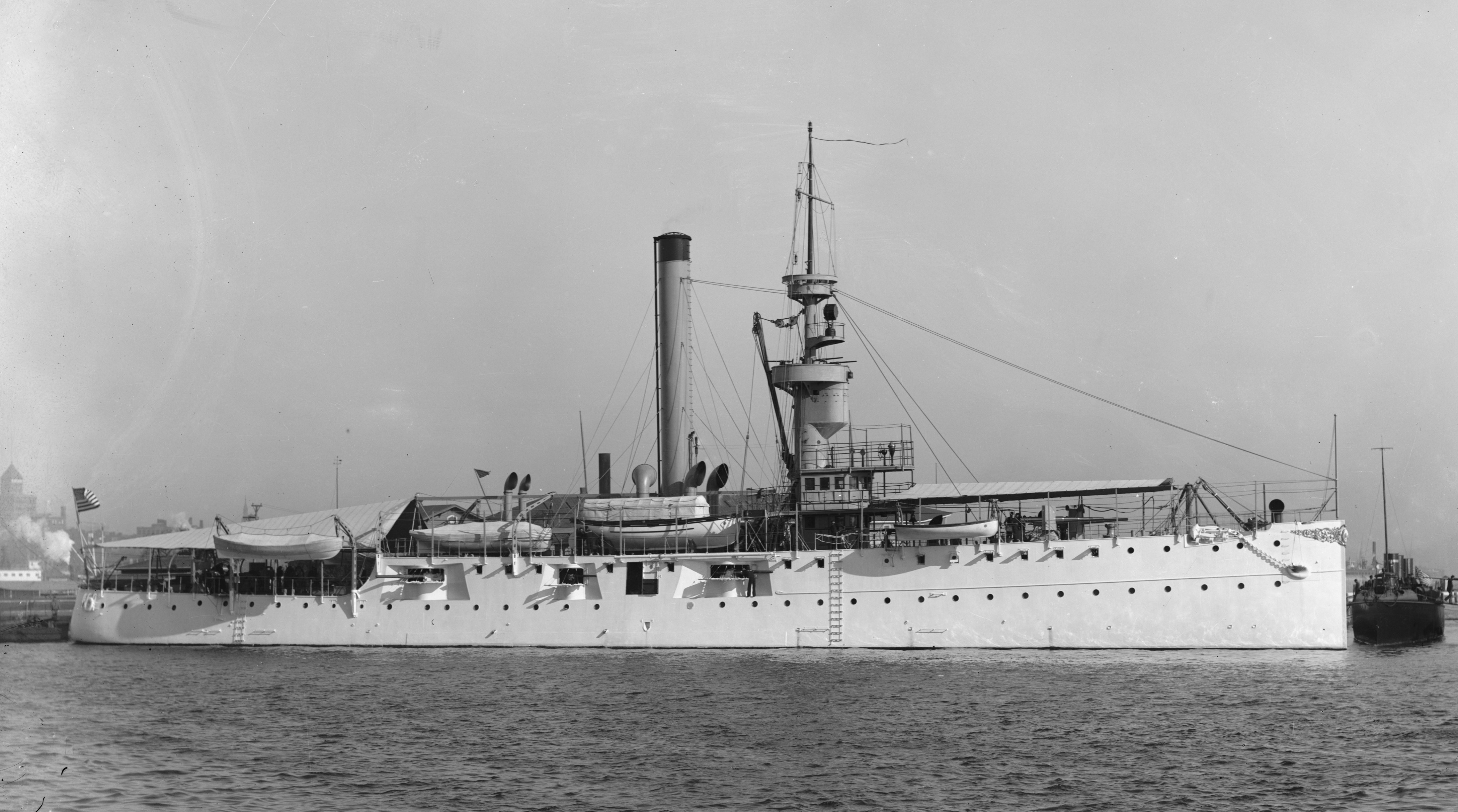 USS Helena